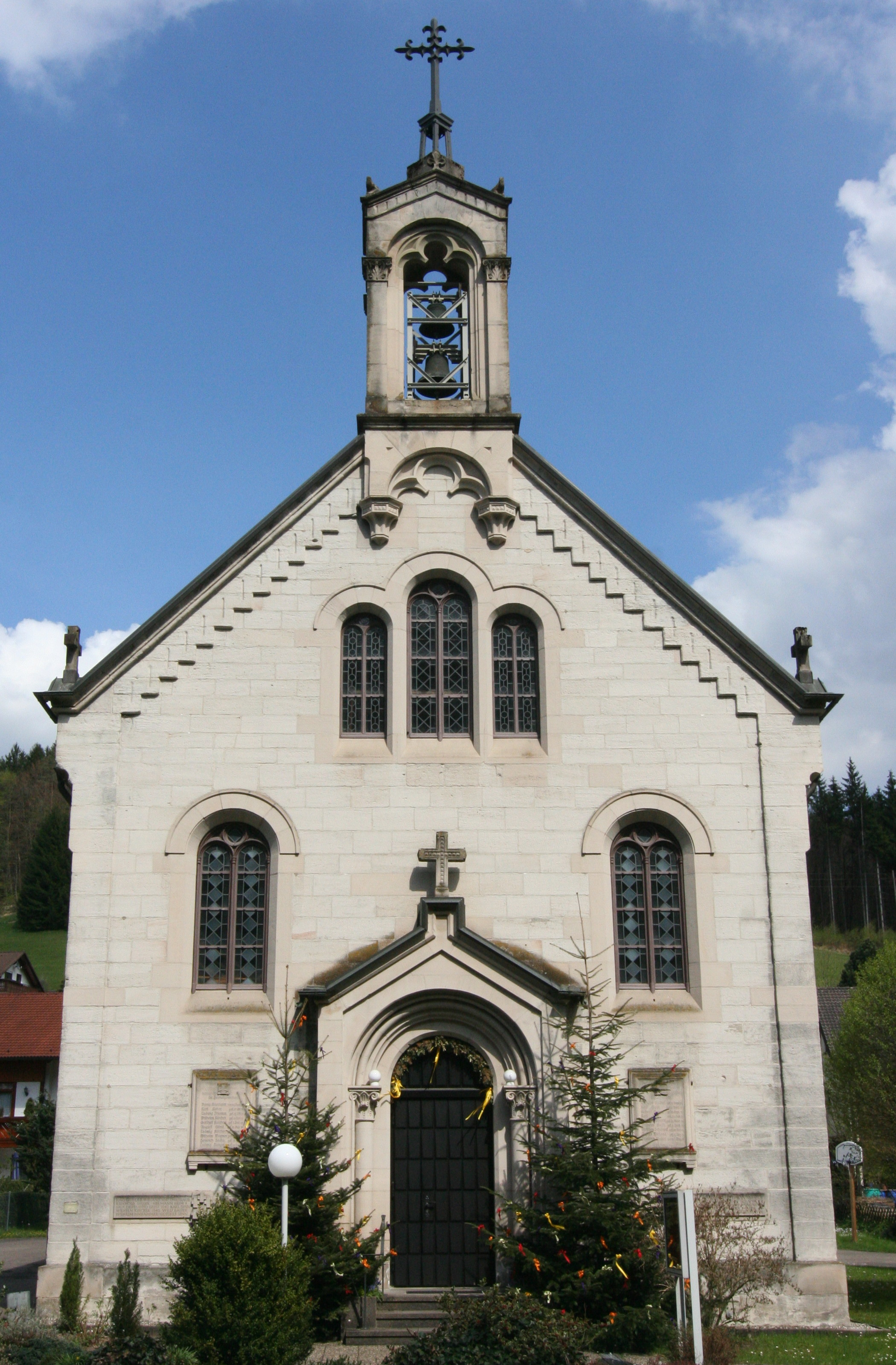 Protestant Martin Luther church in Wüstenrot-Neulautern